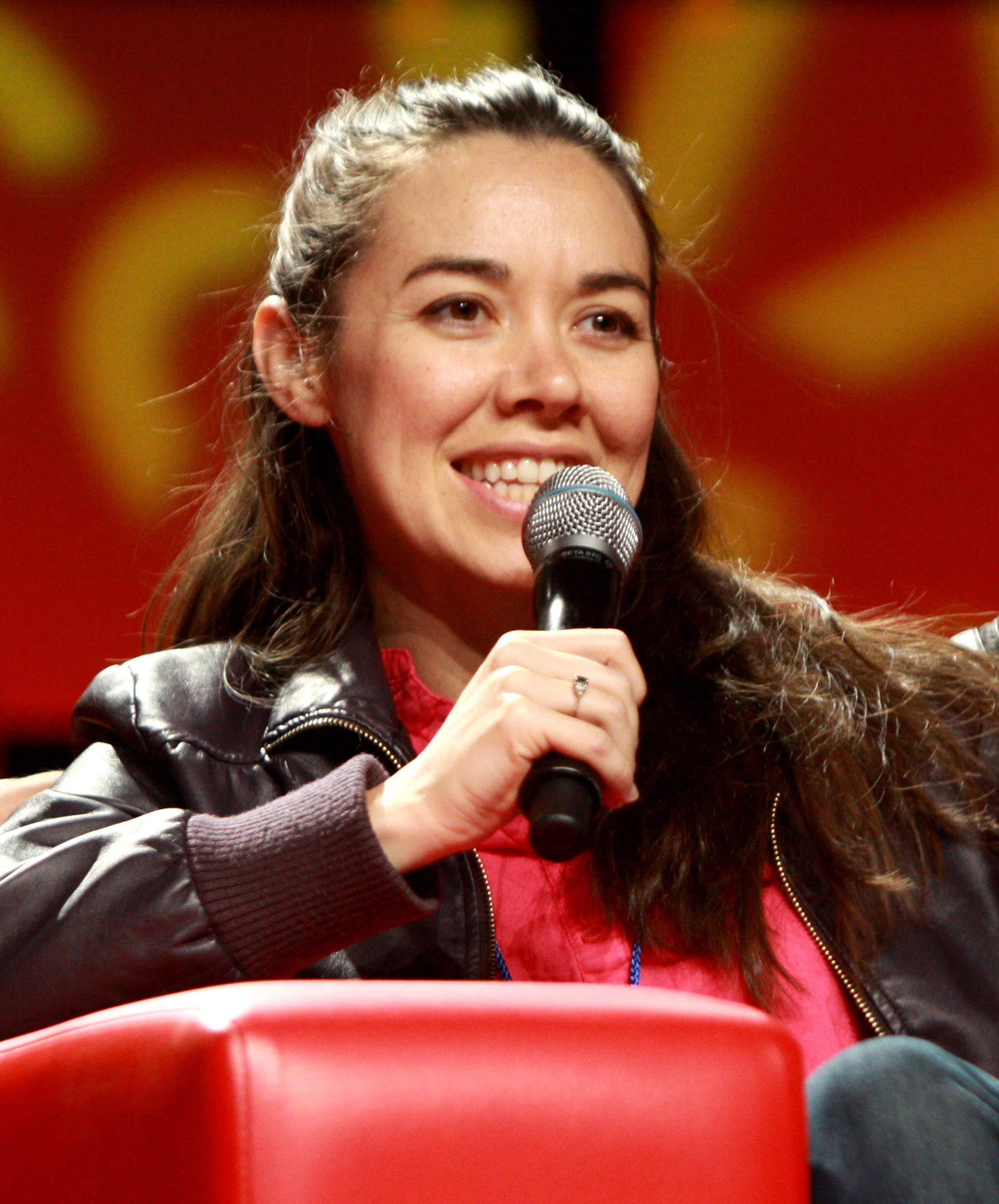 Tara Platt at the 2013 Phoenix Comicon in Phoenix, Arizona.